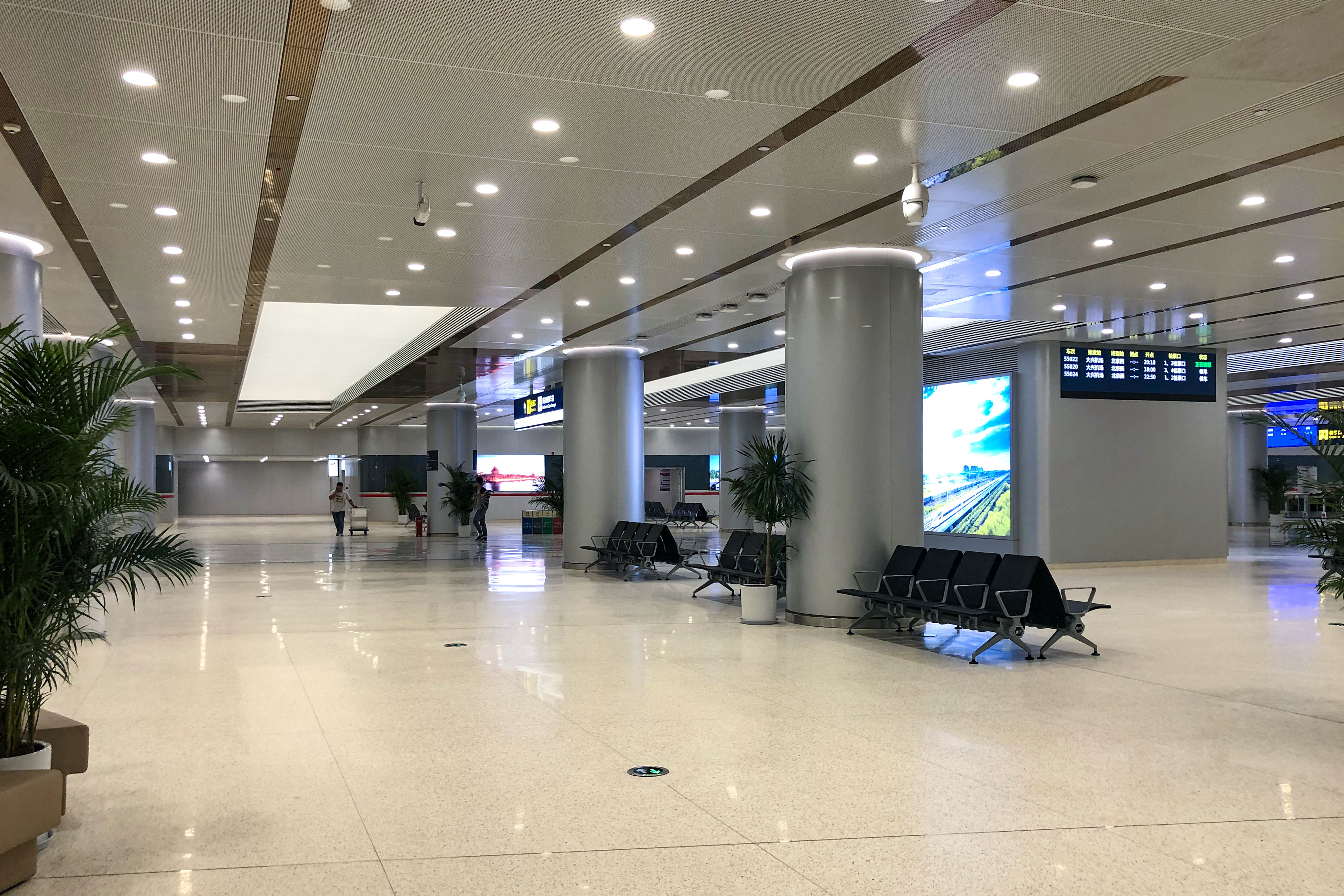 Ticket sales started at 15:00.